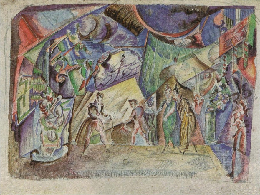 The theatrical scenery sketch for the play “Princess Brambilla”. Kamerny Theatre. Moscow. 1920 The sketch is located in the Bakhrushin Museum in Moscow, Russia.